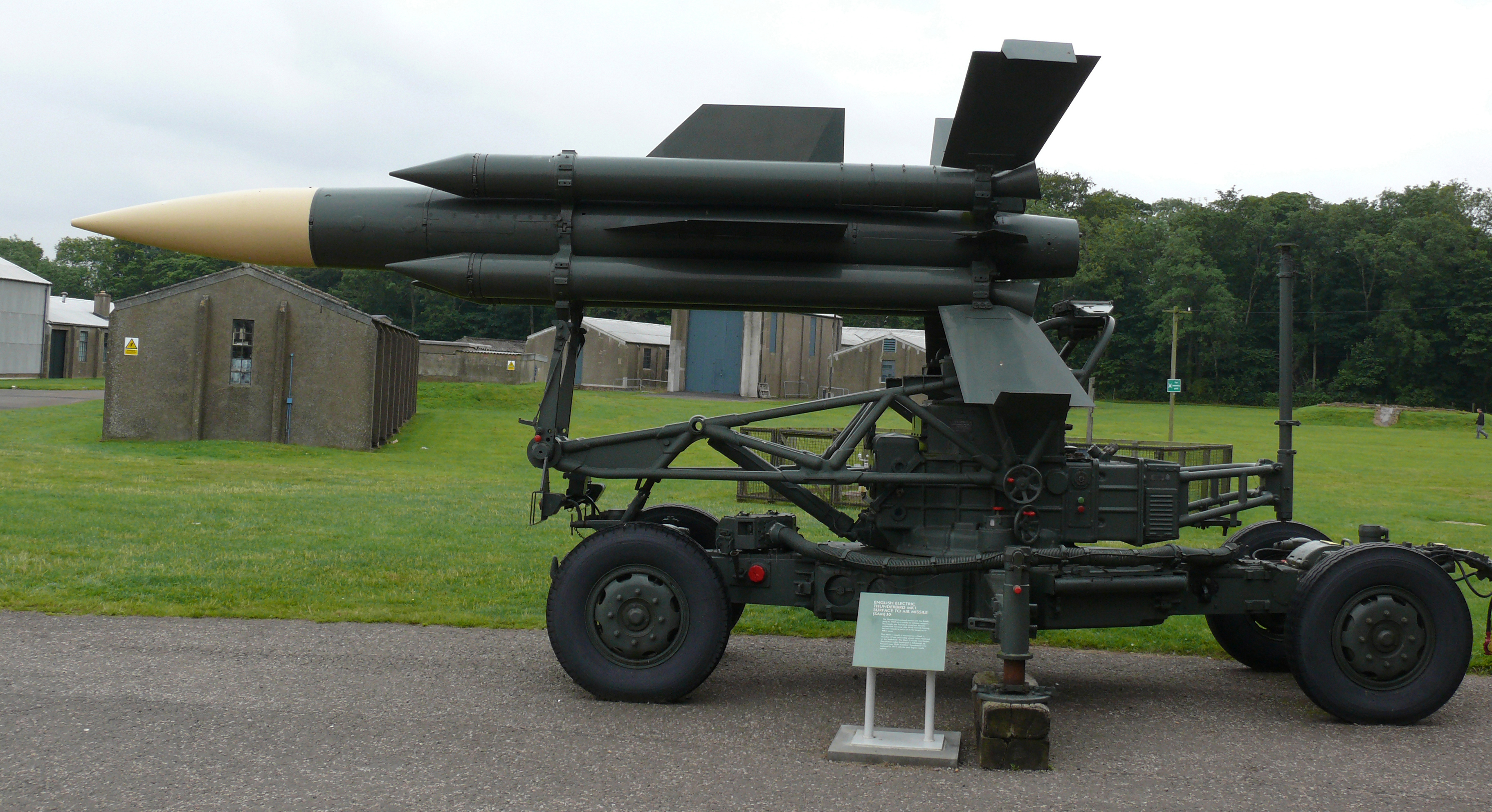 English Electric Thunderbird in the National Museum of Flight in East Fortune, East Lothian, Scotland.